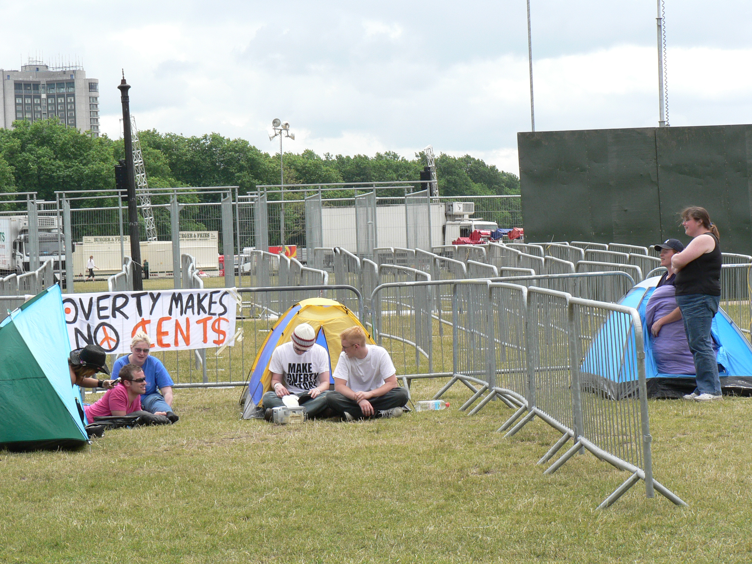 Visitors before Live 8 in London